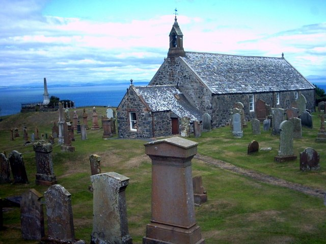 Kirkmaiden Parish Church. Formerly known as 'Kirk Covenant' a church was built here in 1638. Remodelled in 1839, this building is the parish church of Kirkmaiden.